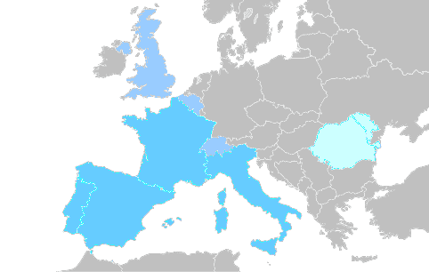 Latin Europe (states and regions) with other countries of Romanic Europe.